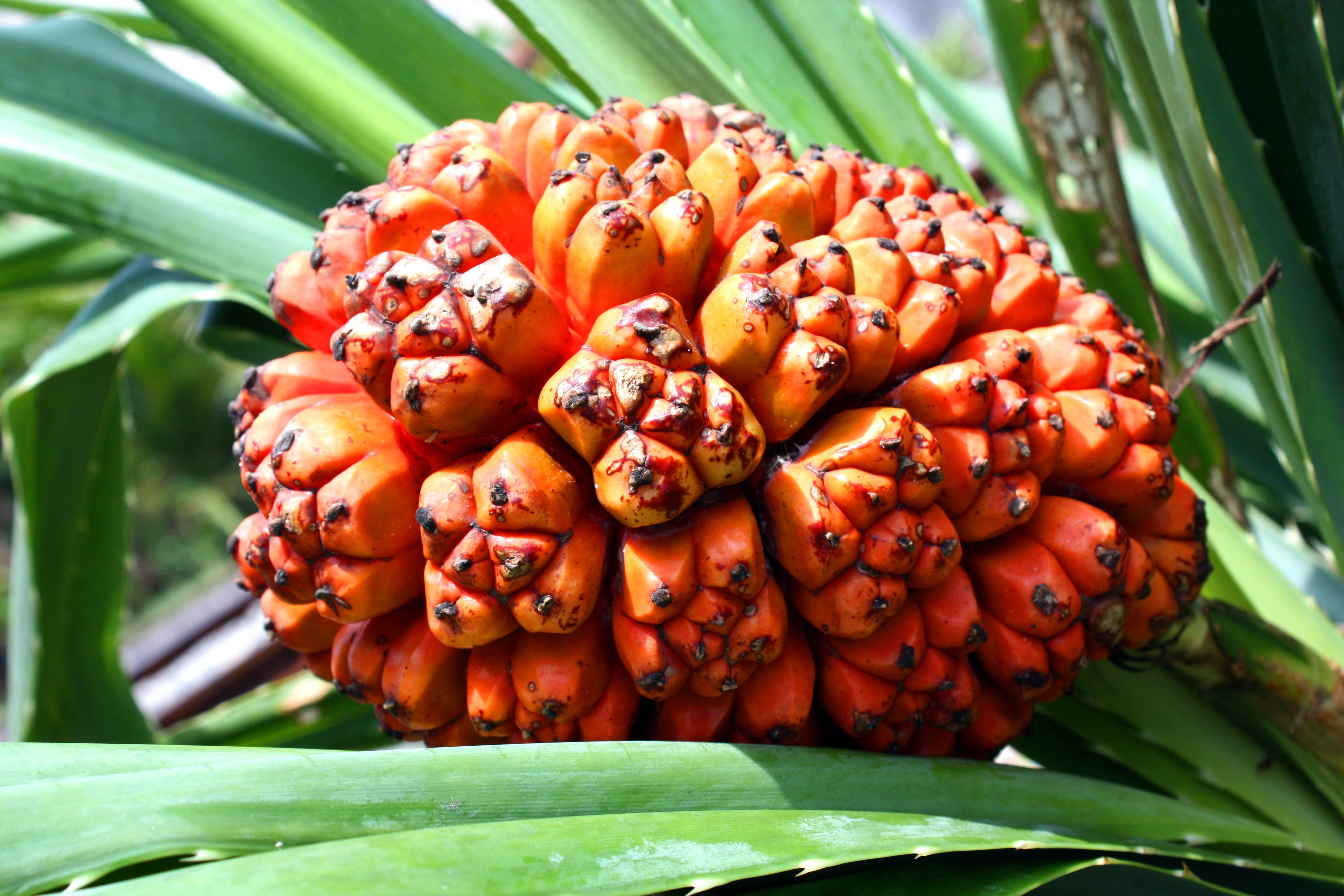 Pandanus tectorius fruit